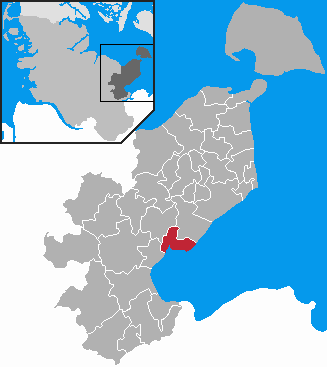 This map shows the area of the Stadt (town) Neustadt in Holstein in the Kreis (district) Ostholstein, Schleswig-Holstein, Germany.